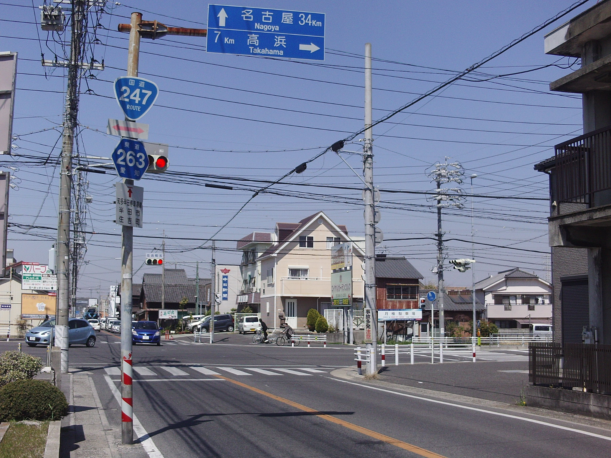 Ending Point of Aichi prefectural road No.263 in Sumiyoshicho, Handa, Aichi.